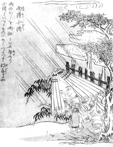 Amefurikozō (雨降小僧, a little boy spirit who plays in the rain) from the Konjaku Gazu Zoku Hyakki (今昔画図続百鬼)